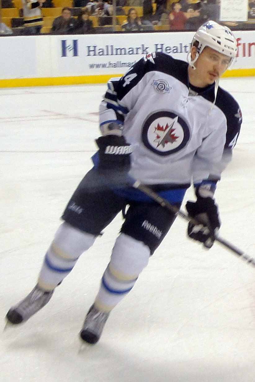 I took this picture of Artūrs during the pre-game warm ups of the Winnipeg Jets vs Boston Bruins game on Nov 26, 2011 at the TD Garden, Boston, MA.